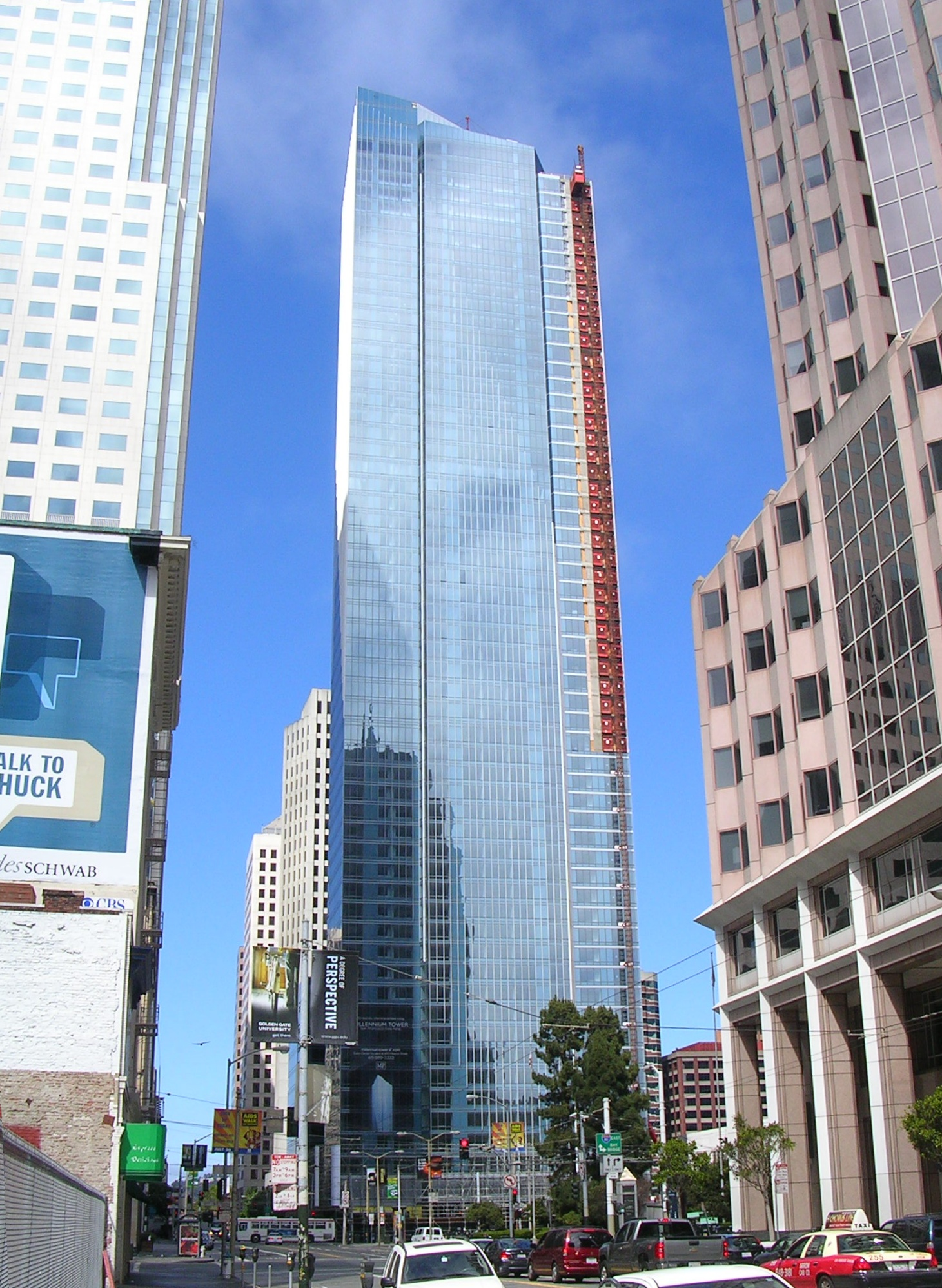 The Millennium Tower (301 Mission Street) and the Mission Street canyon